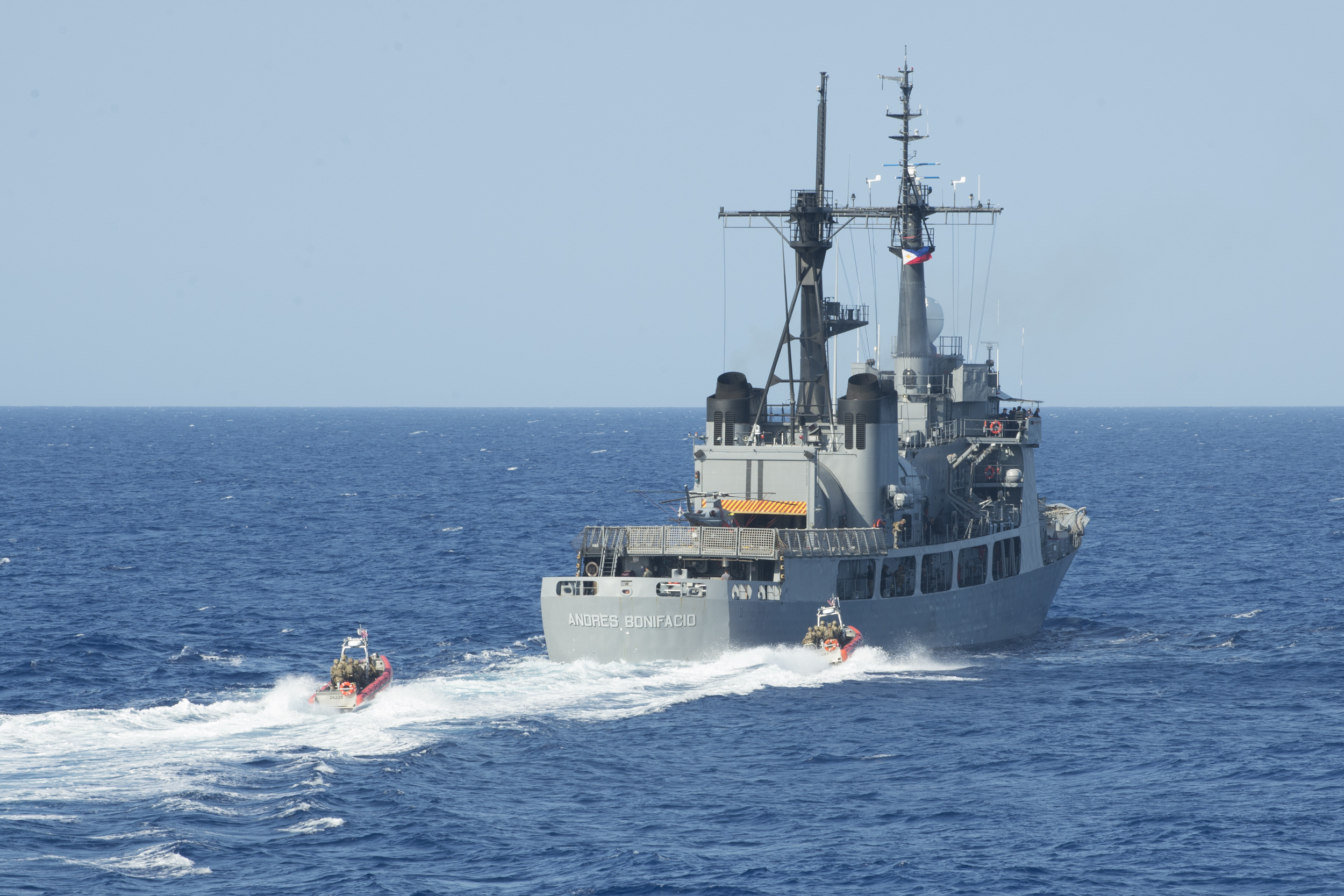 180716-G-ZV557-1106 PACIFIC OCEAN (July 16, 2018) A Coast Guard Tactical Delivery Team (TDT) perform a hook and climb operation to board the Philippine Navy frigate BRP Andrés Bonifacio (FF 17) July 16, during a training operation as part of Rim of the Pacific (RIMPAC) exercise. TDT members are part of the Coast Guard's Maritime Security Response Team-West and routinely train to board compliant and non-compliant vessels. Twenty-five nations, 46 ships, five submarines, about 200 aircraft and 25,000 personnel are participating in RIMPAC from June 27 to Aug. 2 in and around the Hawaiian Island and Southern California. The world’s largest international maritime exercise, RIMPAC provides a unique training opportunity while fostering and sustaining cooperative relationships among the participants critical to ensuring the safety of sea lanes and security on the world’s oceans. RIMPAC 2018 is the 26th exercise in the series that began in 1971. (U.S. Coast Guard photo by Petty Officer 2nd Class David Weydert/Released)